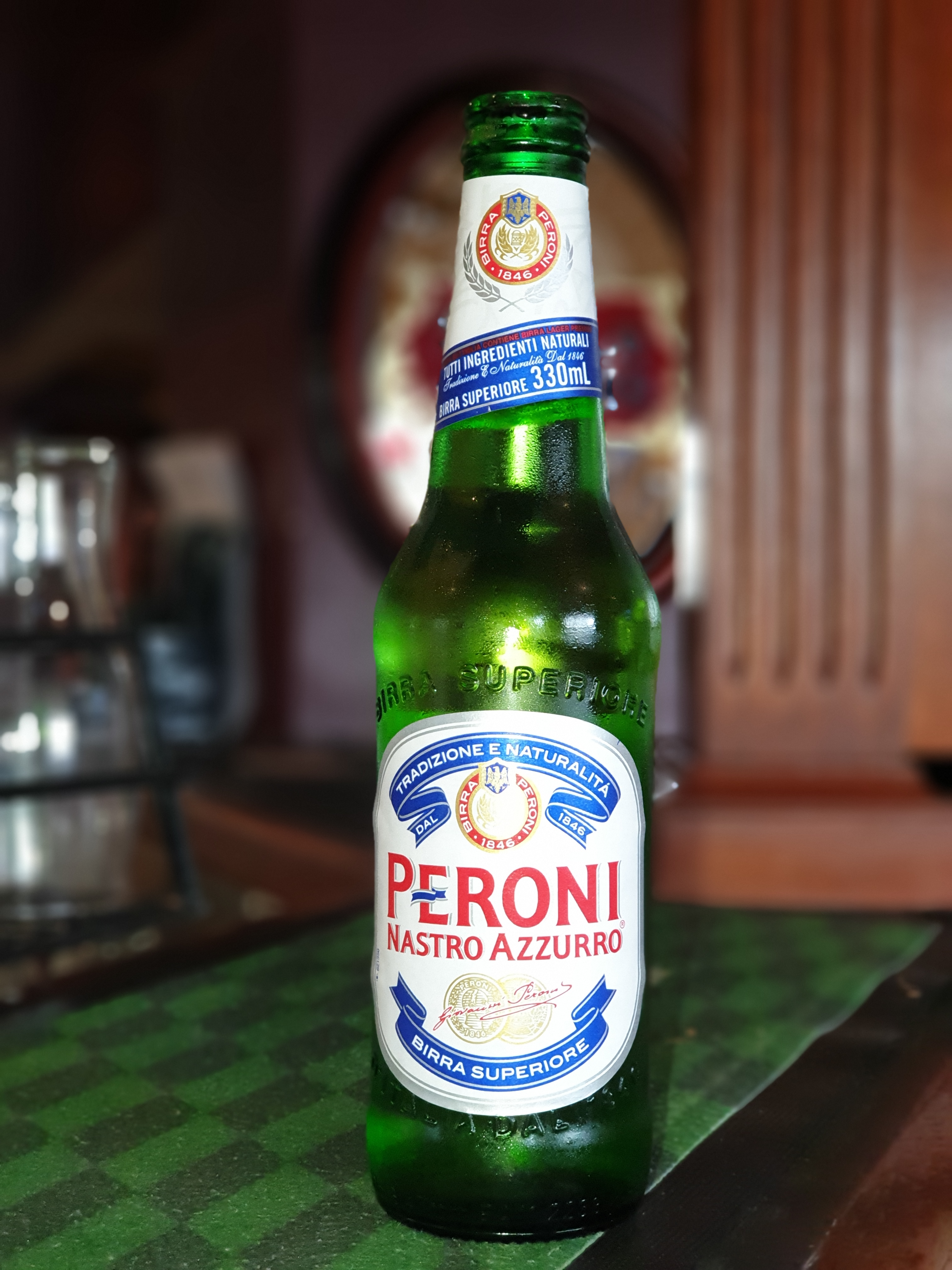 Bottle of Peroni Nastro Azzurro